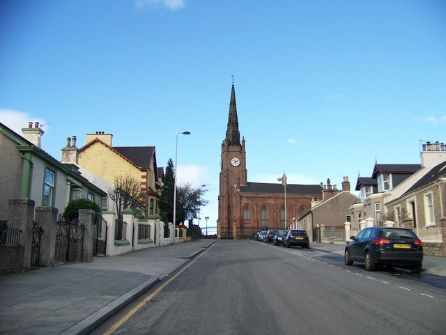 St Andrew's Church of Scotland Viewed from the south